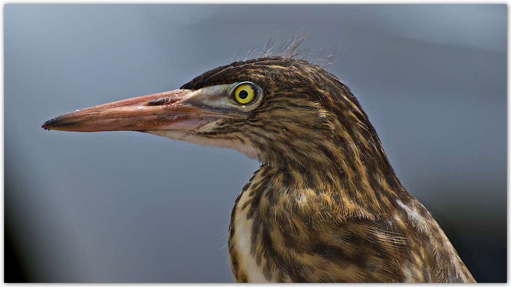 A young Indian pond heron - note gape flanges